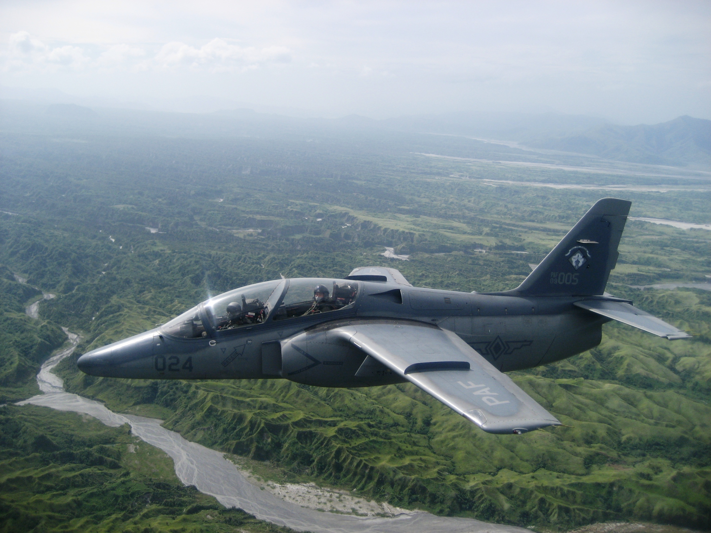 S.211 PAF